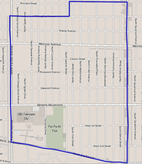 A map of the Fairfax District — a neighborhood in mid-city Los Angeles, California. (Taken from the Los Angeles Times website). This map may be incomplete, and may contain errors. Don't rely solely on it for navigation.